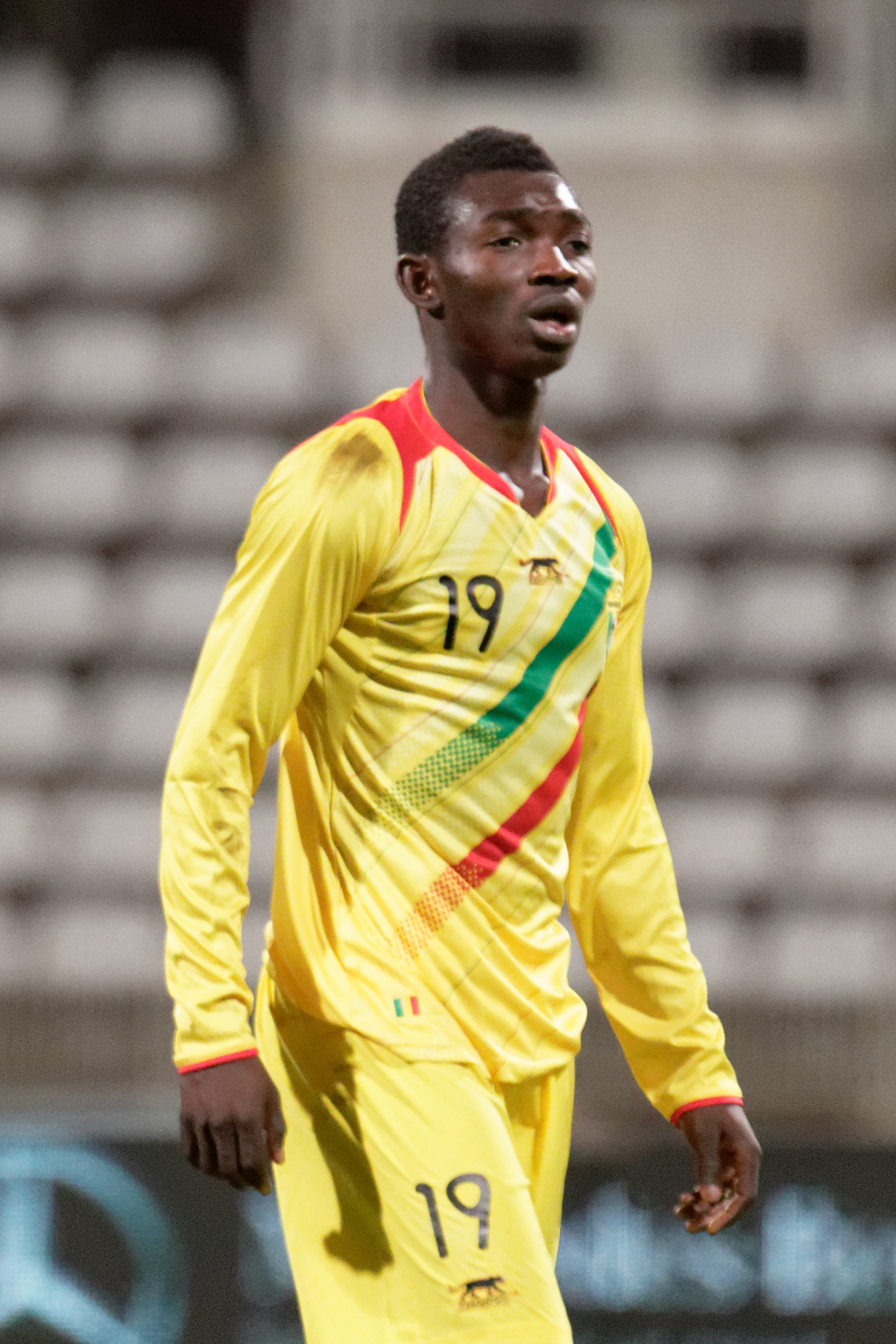 Mali vs Ghana, exhibition game at Paris, 31st March 2015.